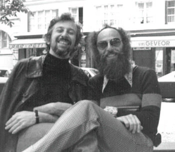 Jack Sarfatti (left) and Fred Alan Wolf in Paris 1973.